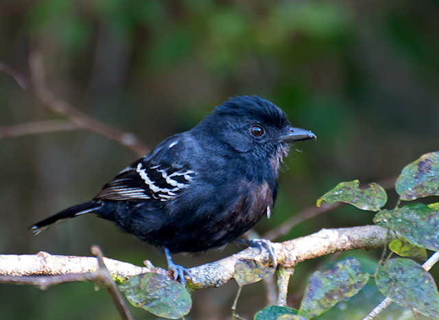 A Variable Antshrike in Piraju, São Paulo, Brazil.